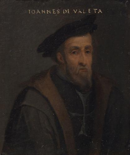 Portrait of John de la Valette, Grand Master of the Knights Hospitaller. He was commander during the Great Siege of Malta and afterwards commissioned the construction of the city of Valetta. He died in 1568 and was buried in St. John's Co-Cathedral in that same city.